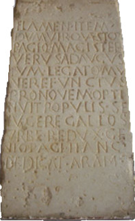 Roman stele in Hasparren, acting the creation of Novempopulania (2nd century).